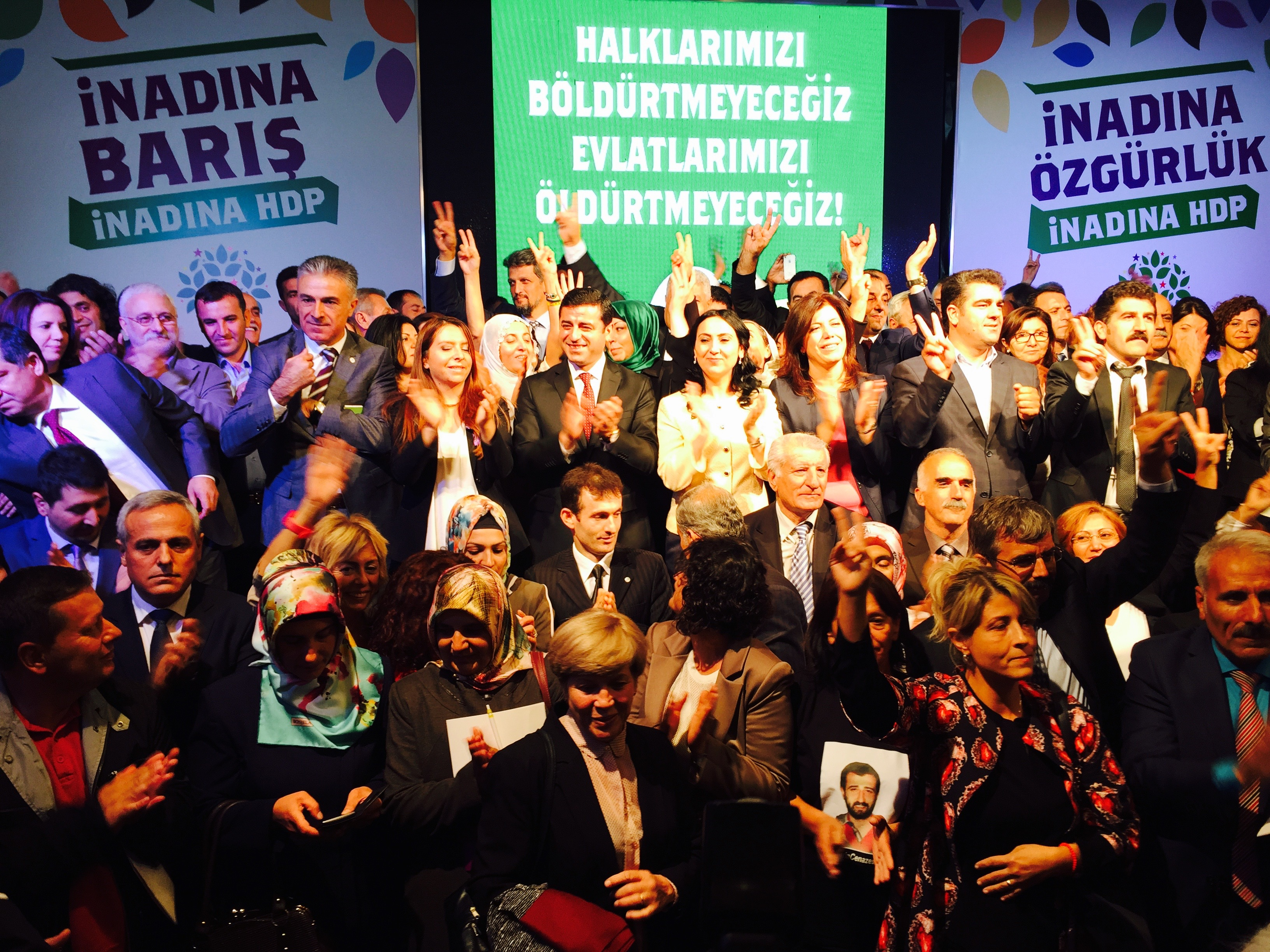 The Turkish People's Democratic Party (HDP) announcing their election manifesto ahead of the 1 November 2015 general election